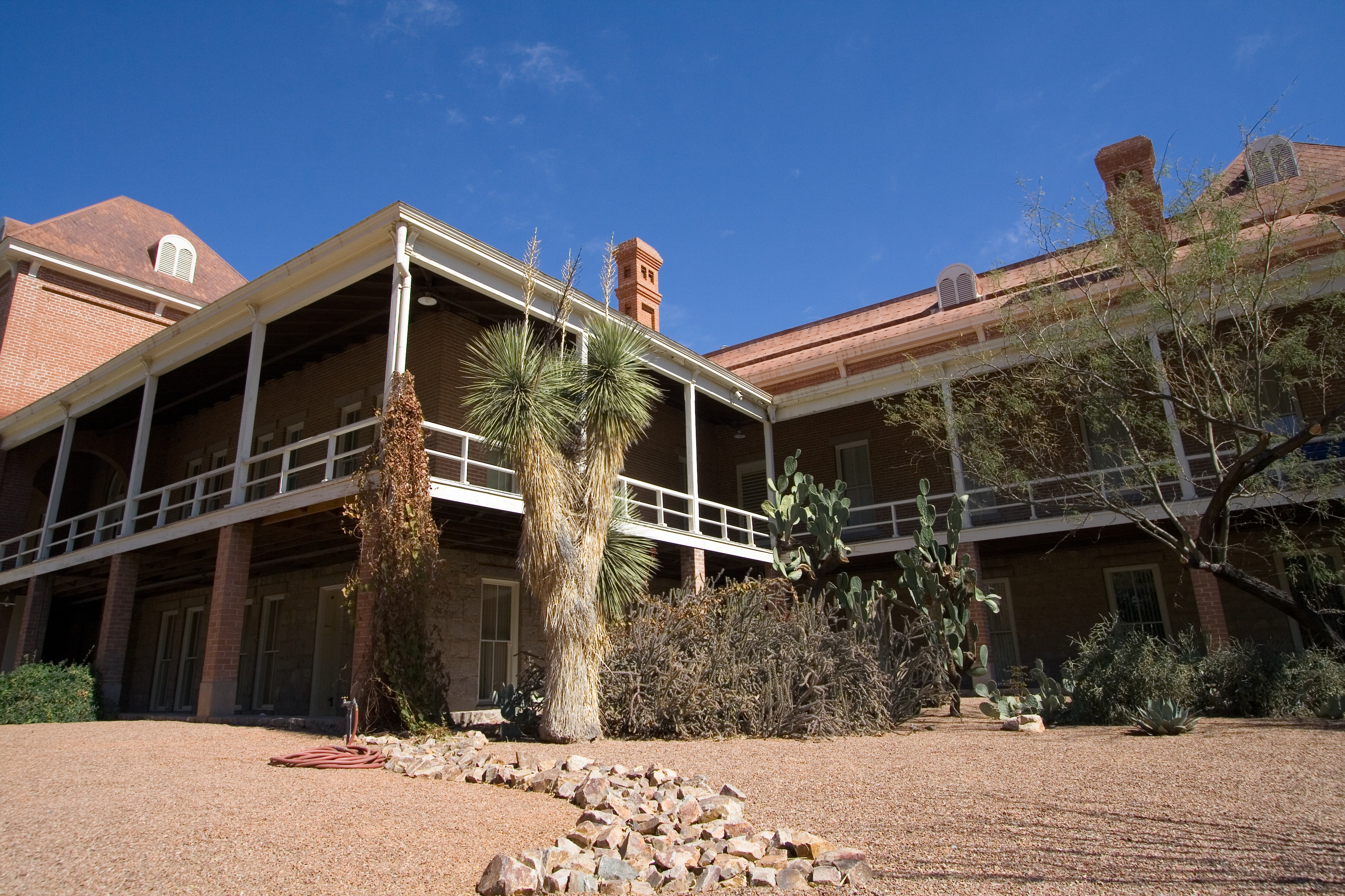 Old Main on the University of Arizona campus. Photo by Aaron Jacobs; taken from flickr.